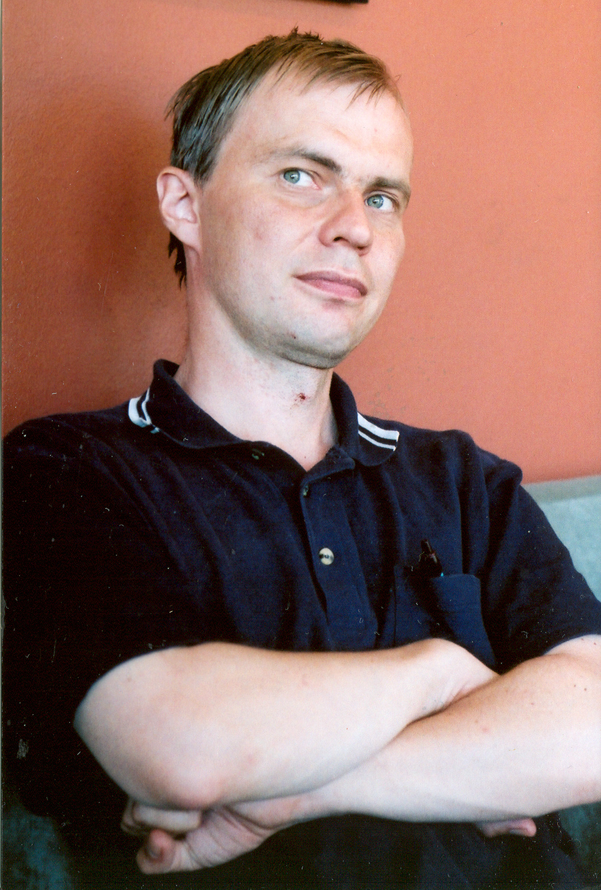 Photo of Aarne Ruben